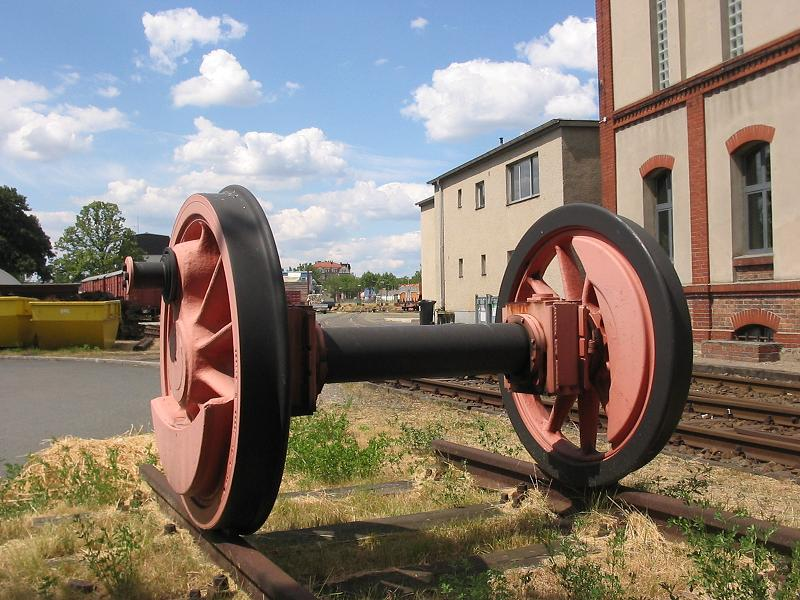 “Neukölln-Mittenwalder Eisenbahn“ (railway), founded in 1899 as „Rixdorf-Mittenwalder Eisenbahn“. Goods station Teltowkanal, nearby depot „Gradestraße“ of the „Berliner Stadtreinigungsbetriebe“ (sanitation department). Berlin-Tempelhof, Germany.